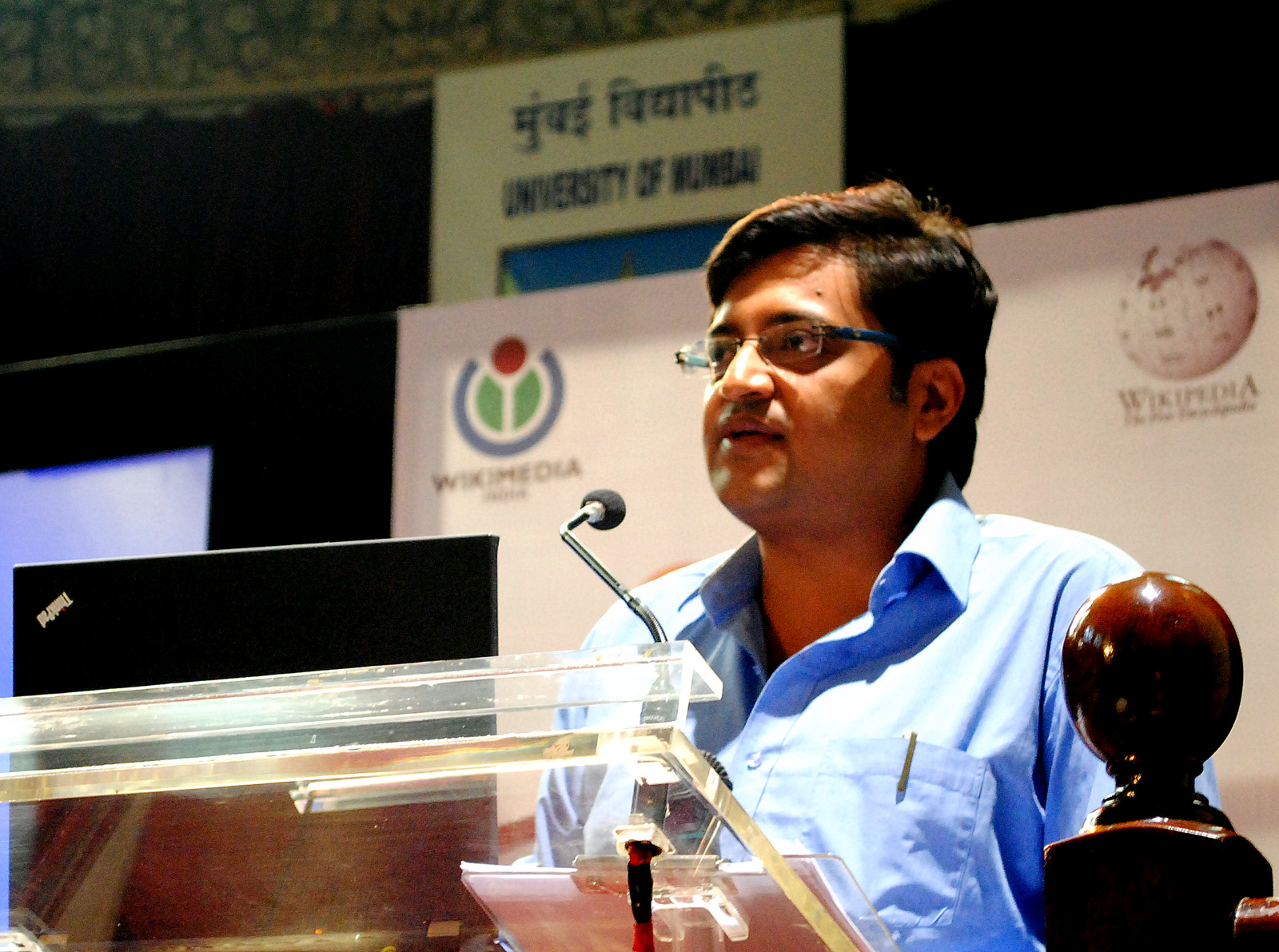 Arnab Goswami speaking at Wiki Conference Mumbai, India 2011